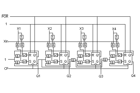 Program counter